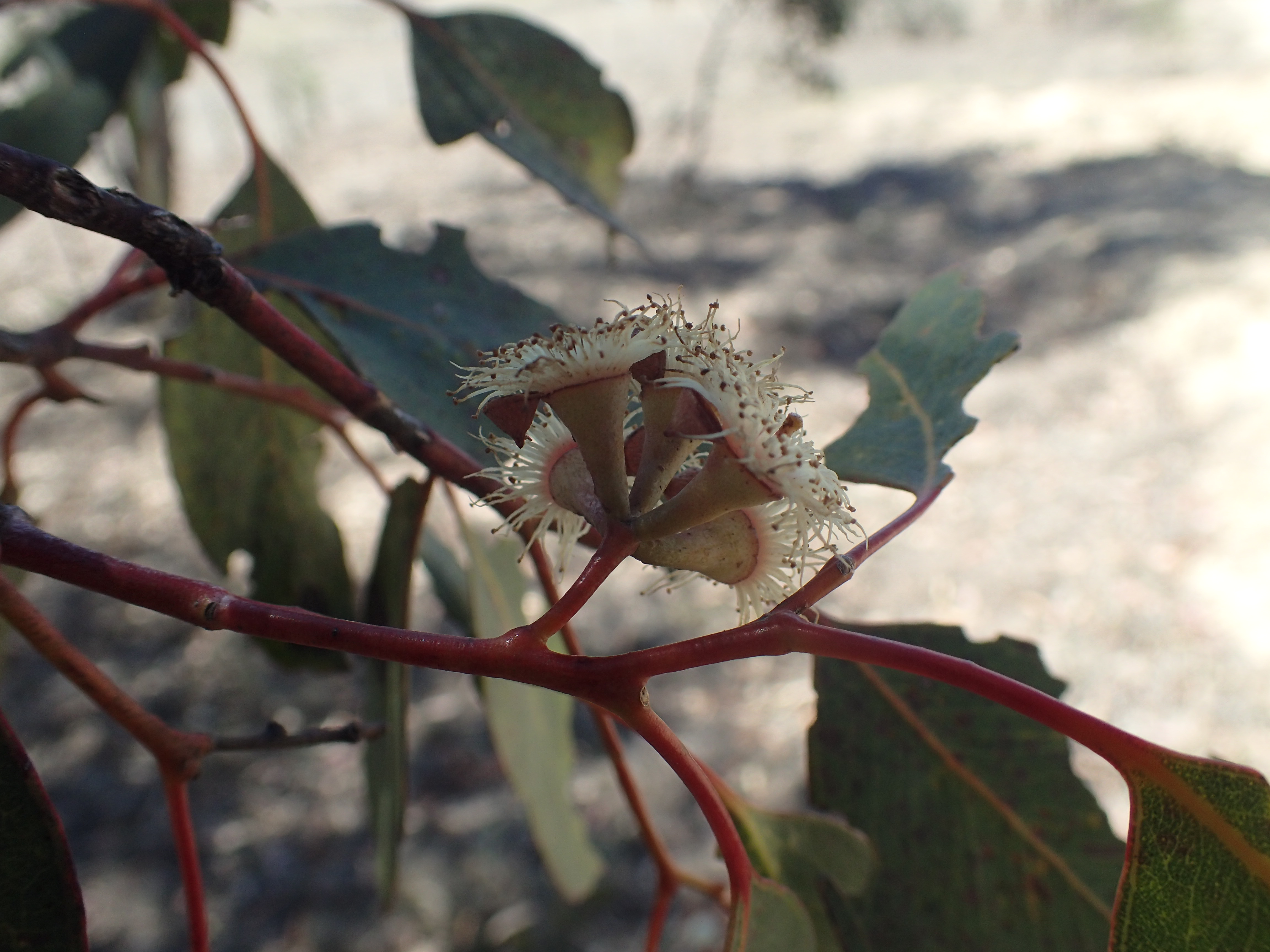 Flowers of Eucalyptus magnificata on a drought-affected tree near Hillgrove